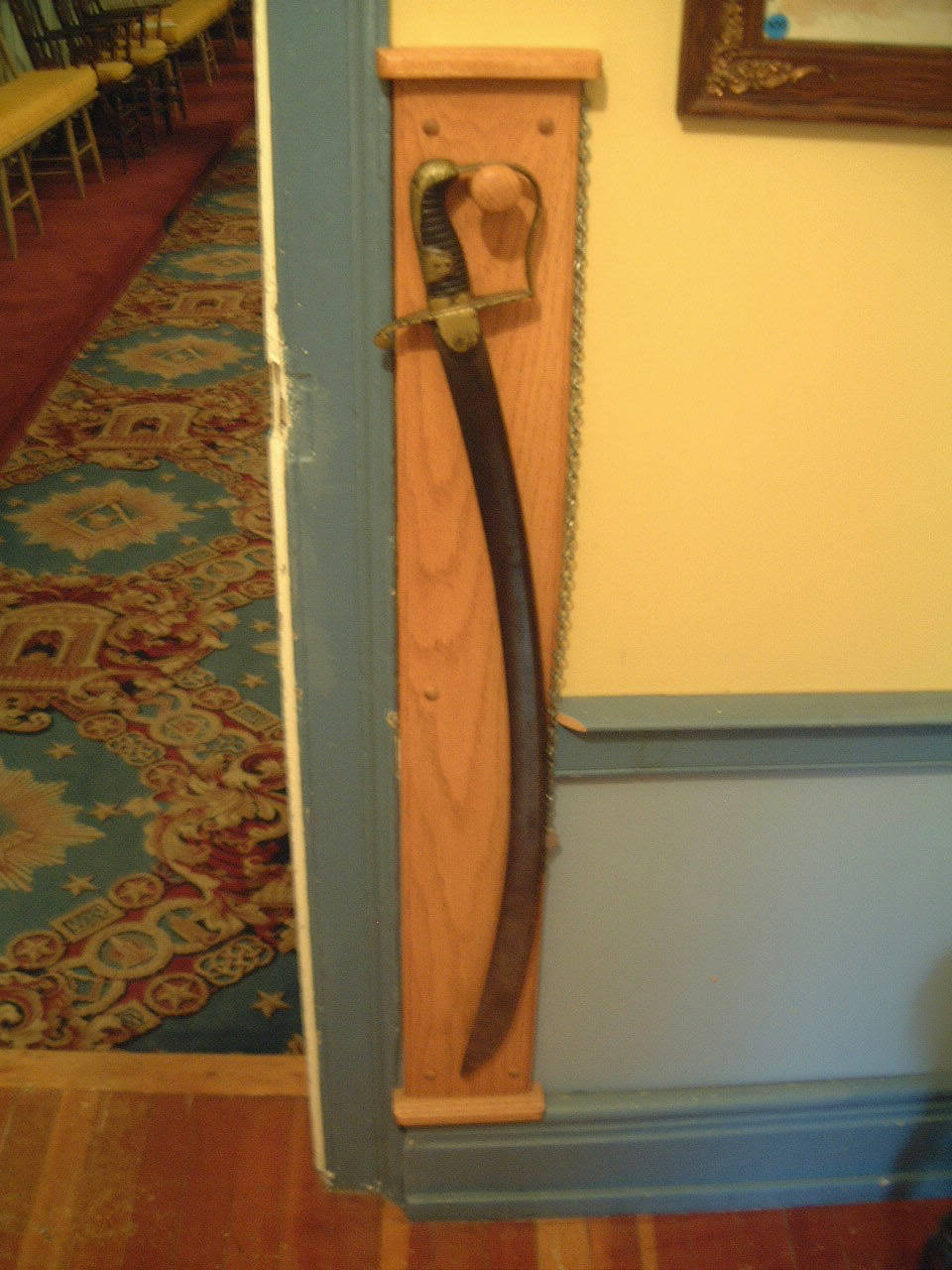 Sword in Niagara Lodge 2 of the Freemasons Building in Niagara-on-the-Lake, Ontario, Canada, a British 1796 pattern light cavalry sabre.